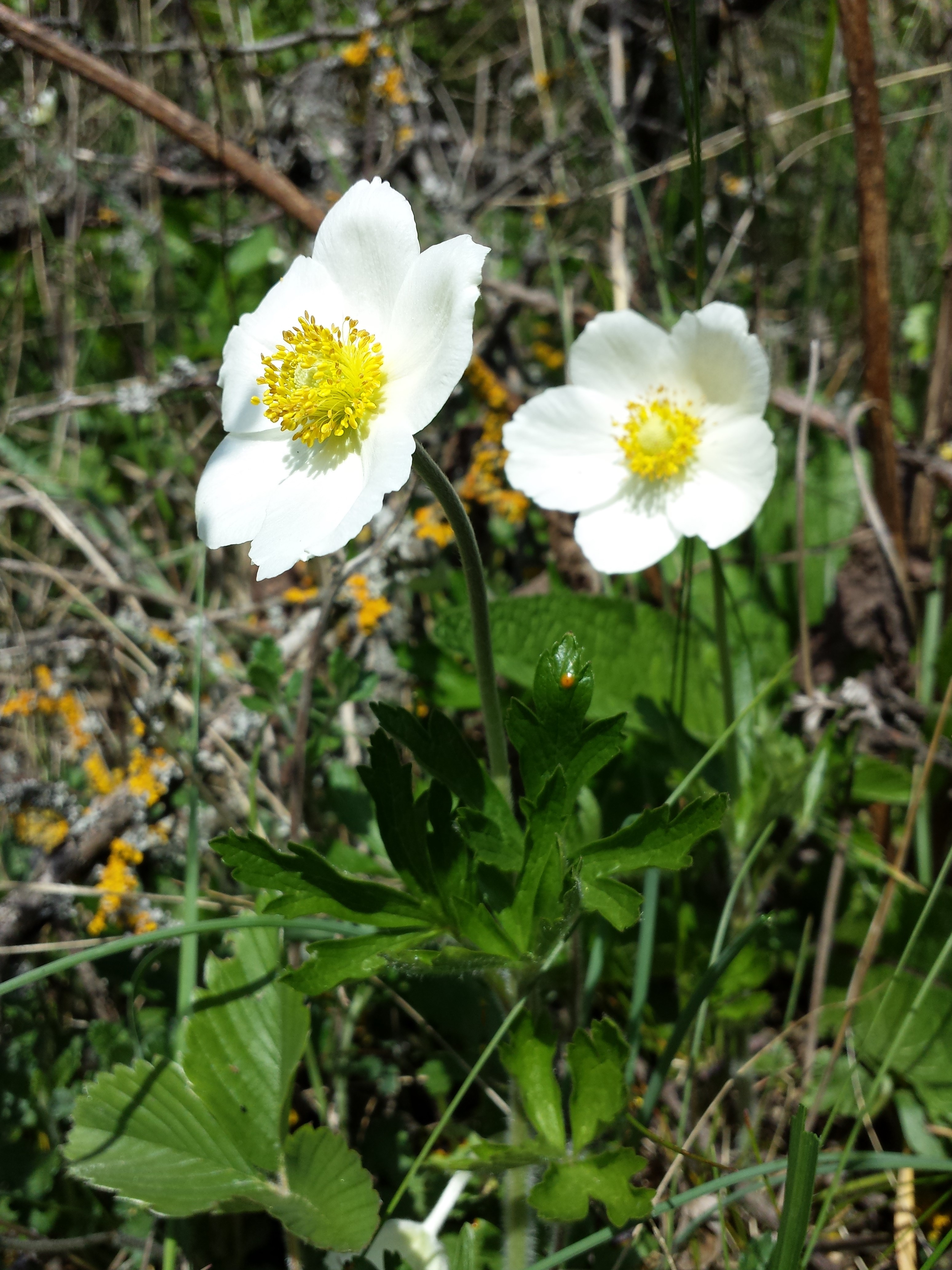 Habitus Taxon: Anemone sylvestris (sensu Fischer et al. EfÖLS 2008 ISBN 978-3-85474-187-9) Location: Gebmannsberg, district Korneuburg, Lower Austria - ca. 340 m a.s.l. Habitat: dry grassland (Loess)